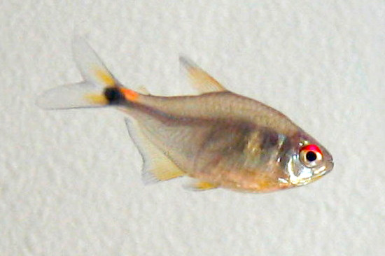 This is a photo of my own Head-and-tail light tetra (Hemigrammus ocellifer).